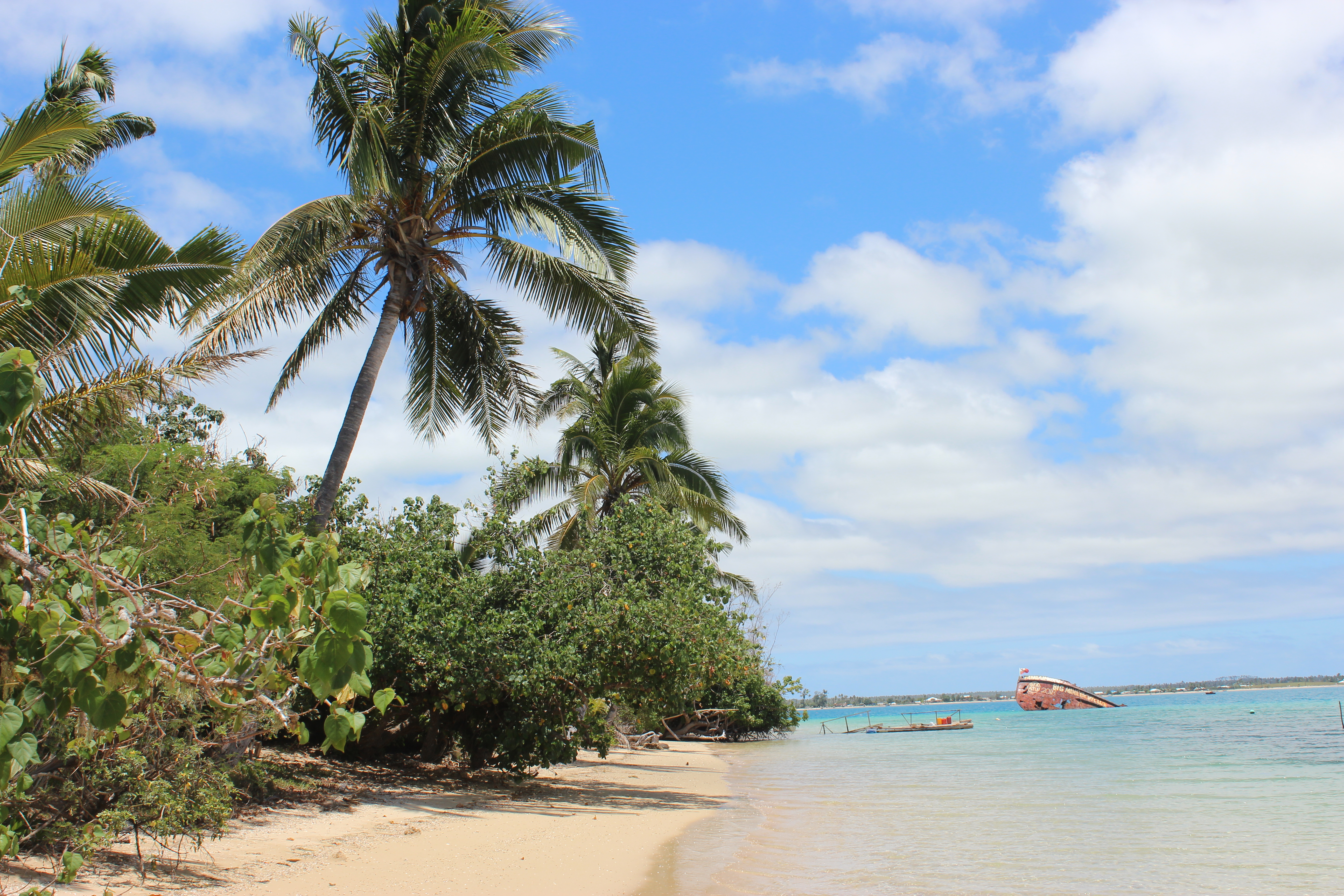 Pangaimotu Island, Tonga